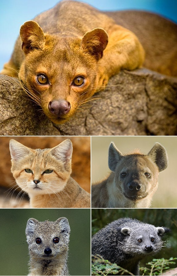 Portraits of various feliforms